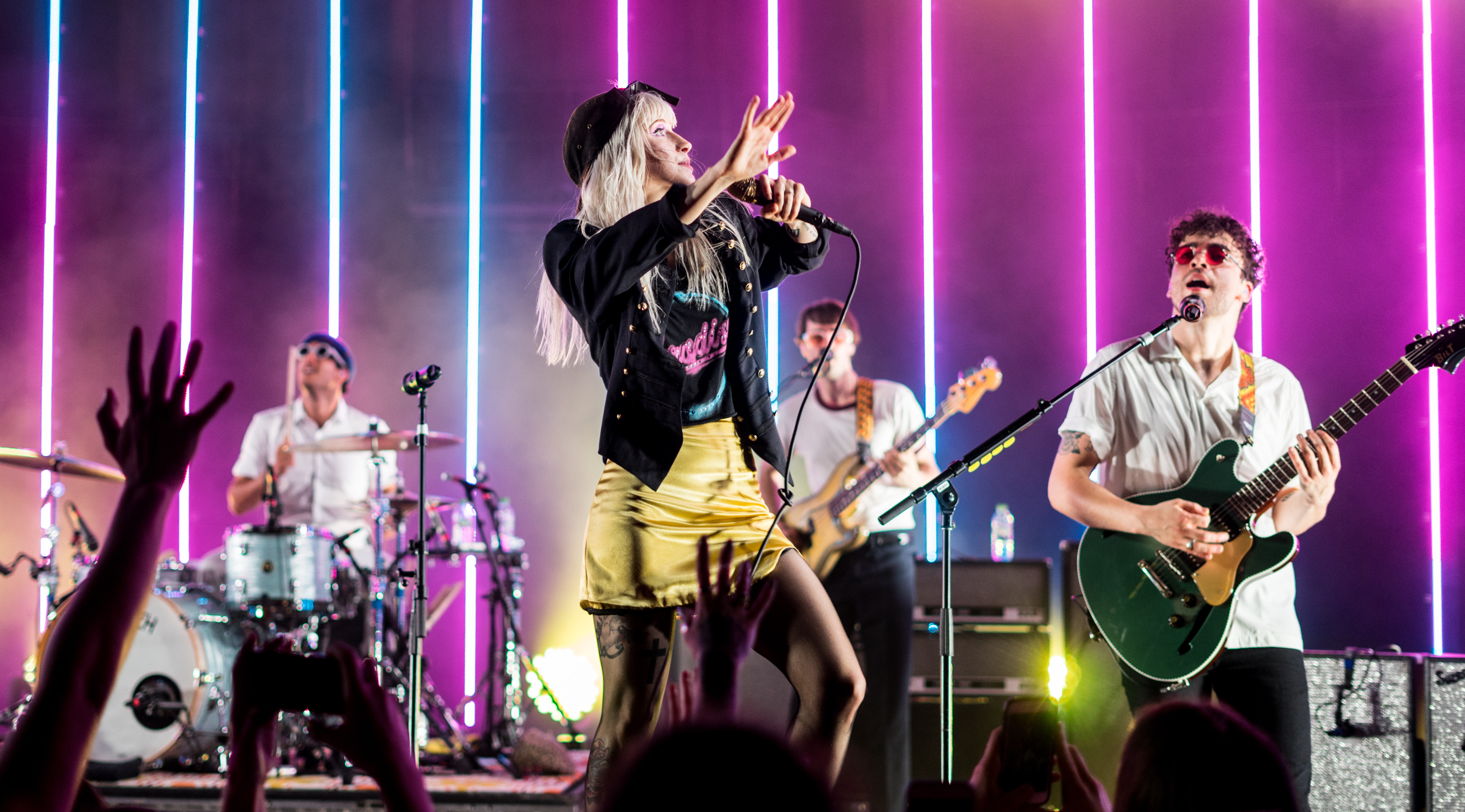 Paramore live concert at Royal Albert Hall, London, UK.